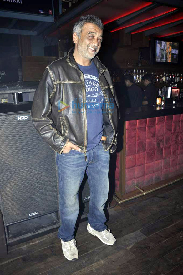 Lucky Ali at Neil Nitin Mukesh graces the live concert hosted by Bejoy Nambiar